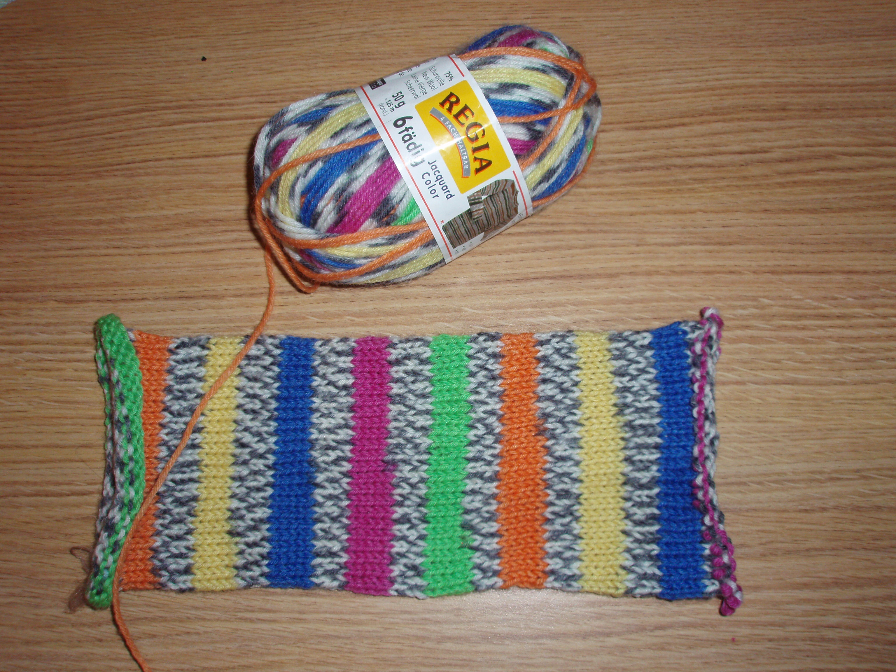 a picture of the self-striping capabilities of some yarns